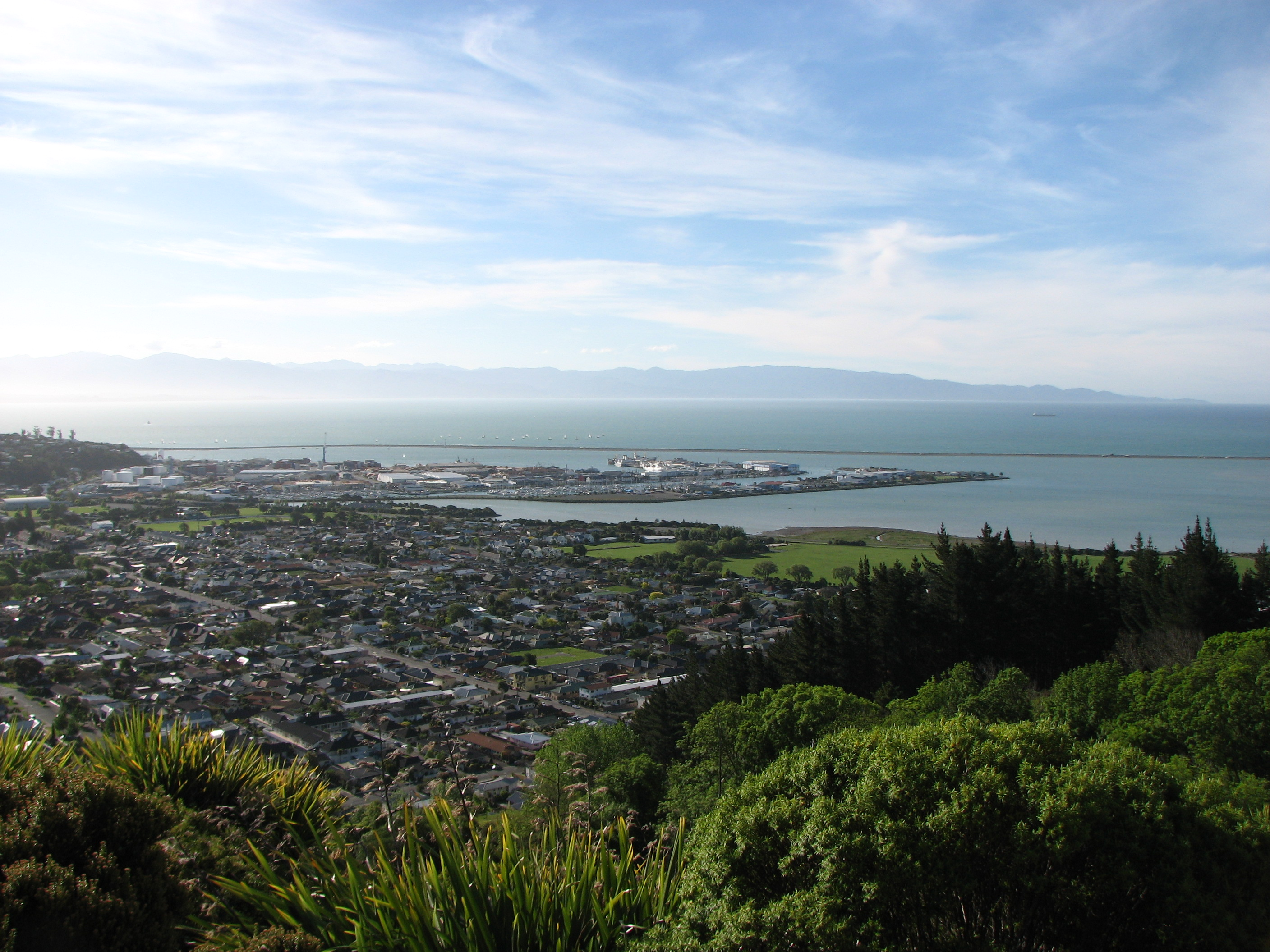 Nelson, New Zealand, as seen from the Centre of New Zealand. On the horizon lies Abel Tasman National Park.